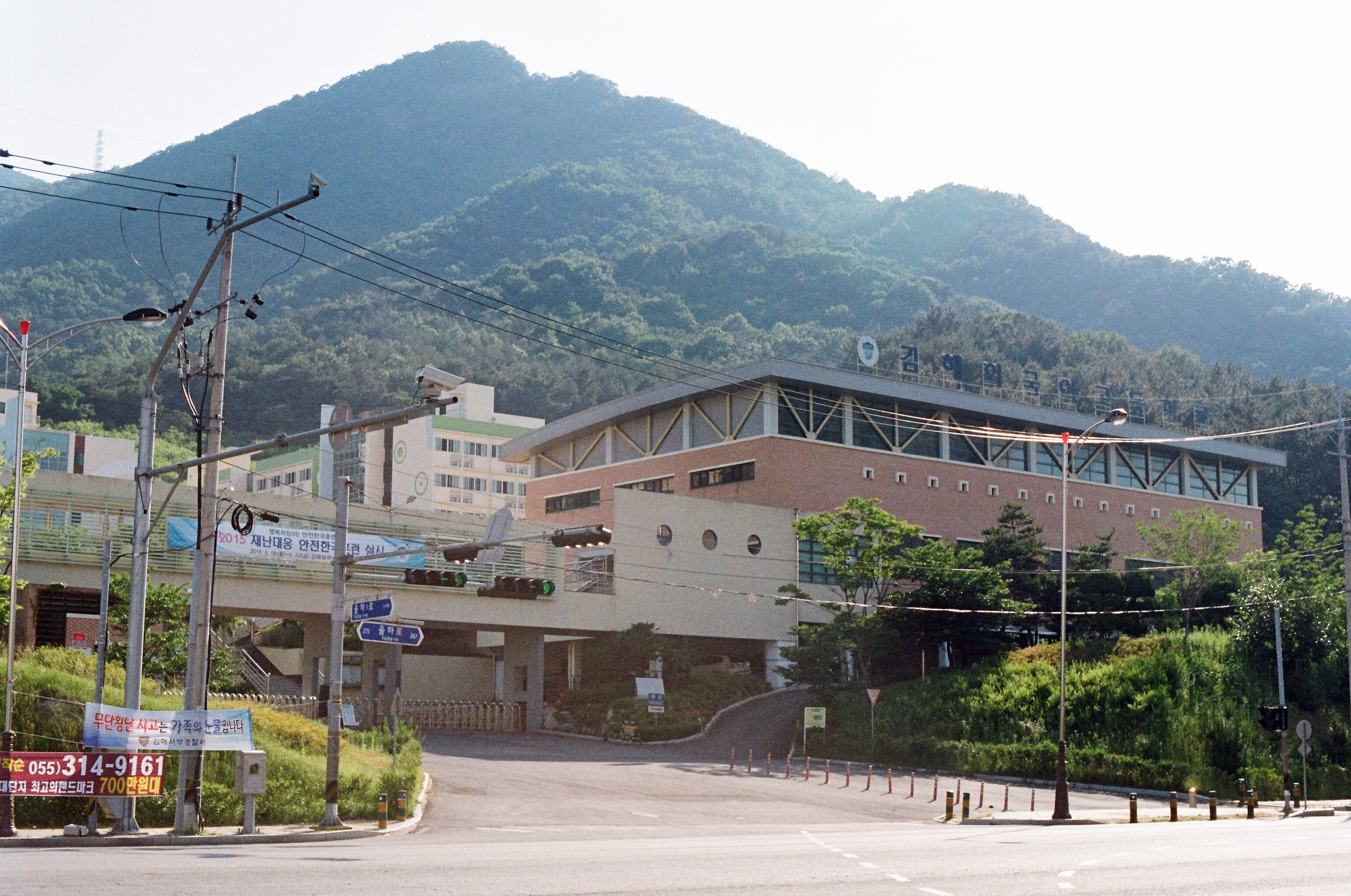 Gimhae Foreign Language High School. Taken in May 2015 with a Kodak ColorPlus 200 film.